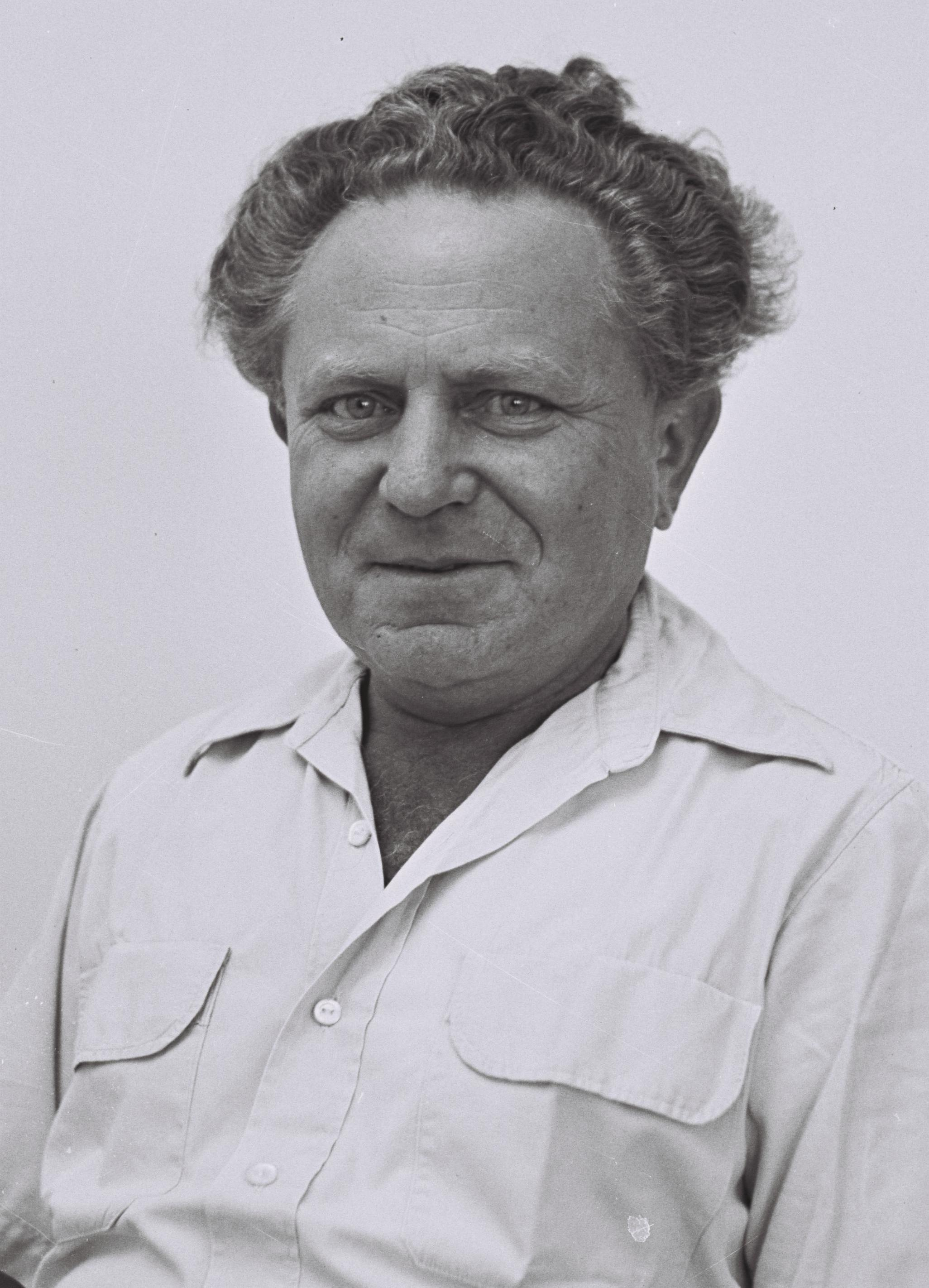 M.k. Israel Galili, Ahdut Avoda.